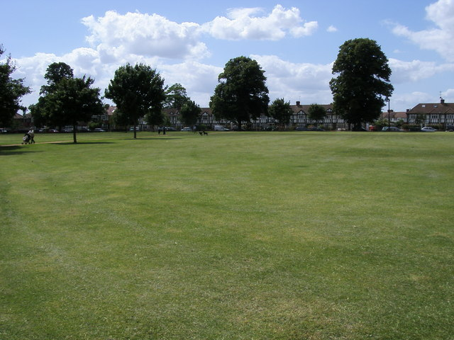 Latchmere Recreation Ground Open Green of Latchmere Recreation Ground